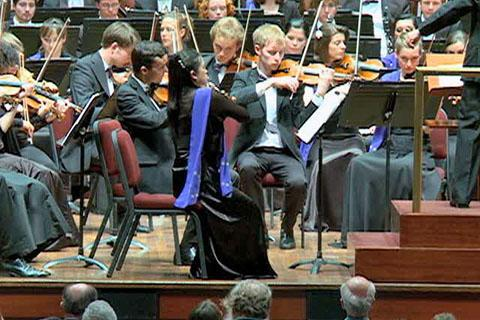 The Washington Performing Arts Society presented the European Union Youth Orchestra at Washington's Kennedy Center, April 2012. The group has stops planned in New York and Boston before finishing its tour near Chicago later this month.